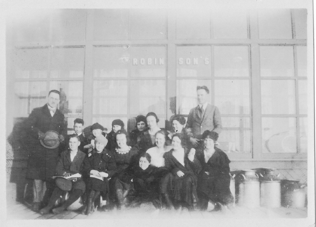 Robinson Department store